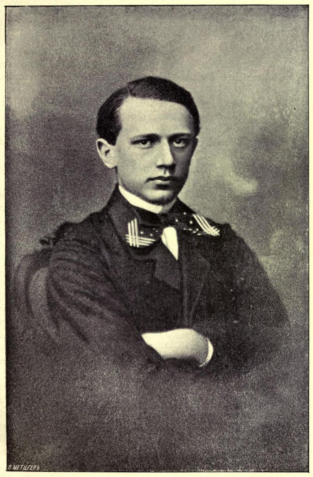 Photo of Pyotr Ilyich Tchaikovsky in 1863 (approximately 23 years old)